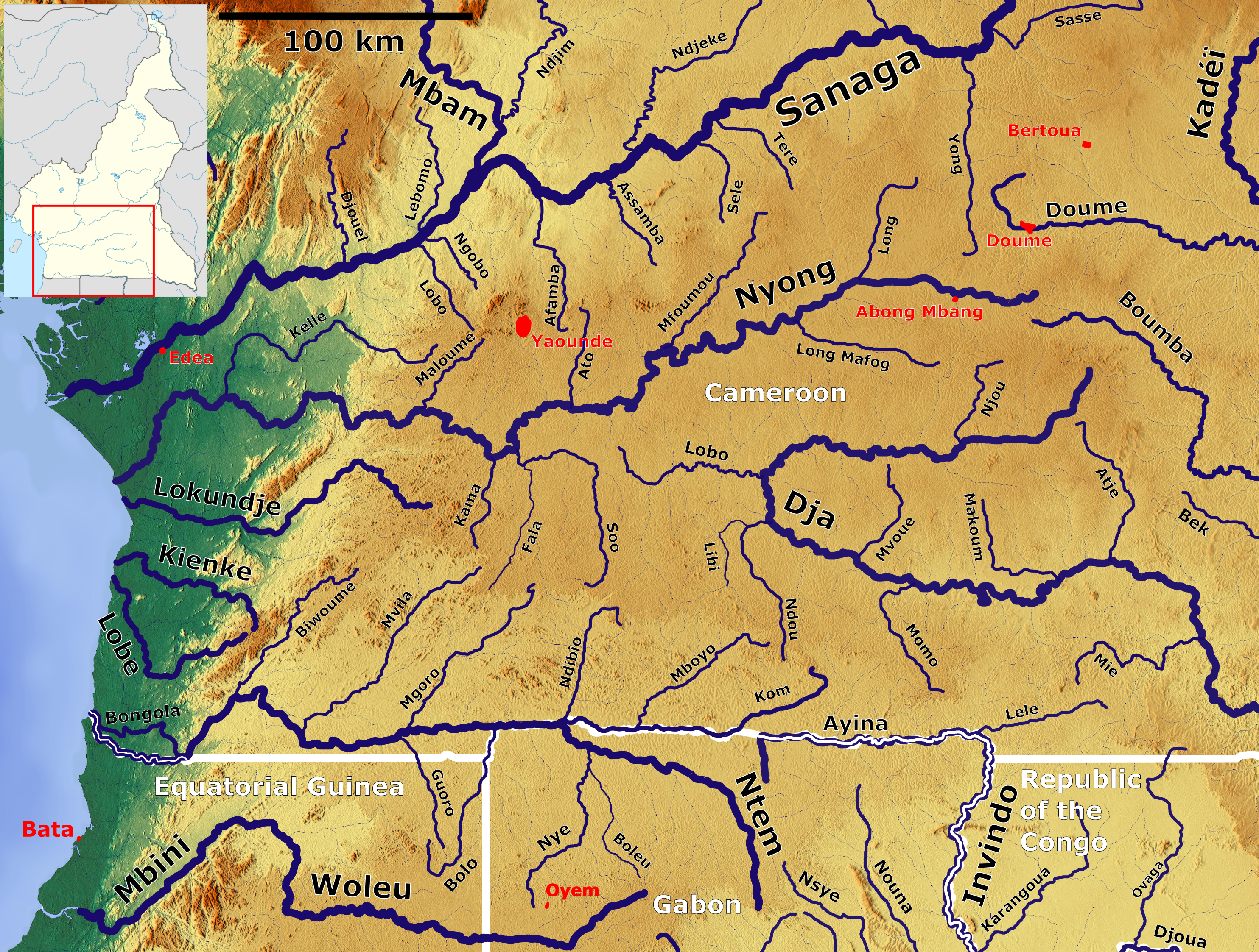 Nyong River OSM